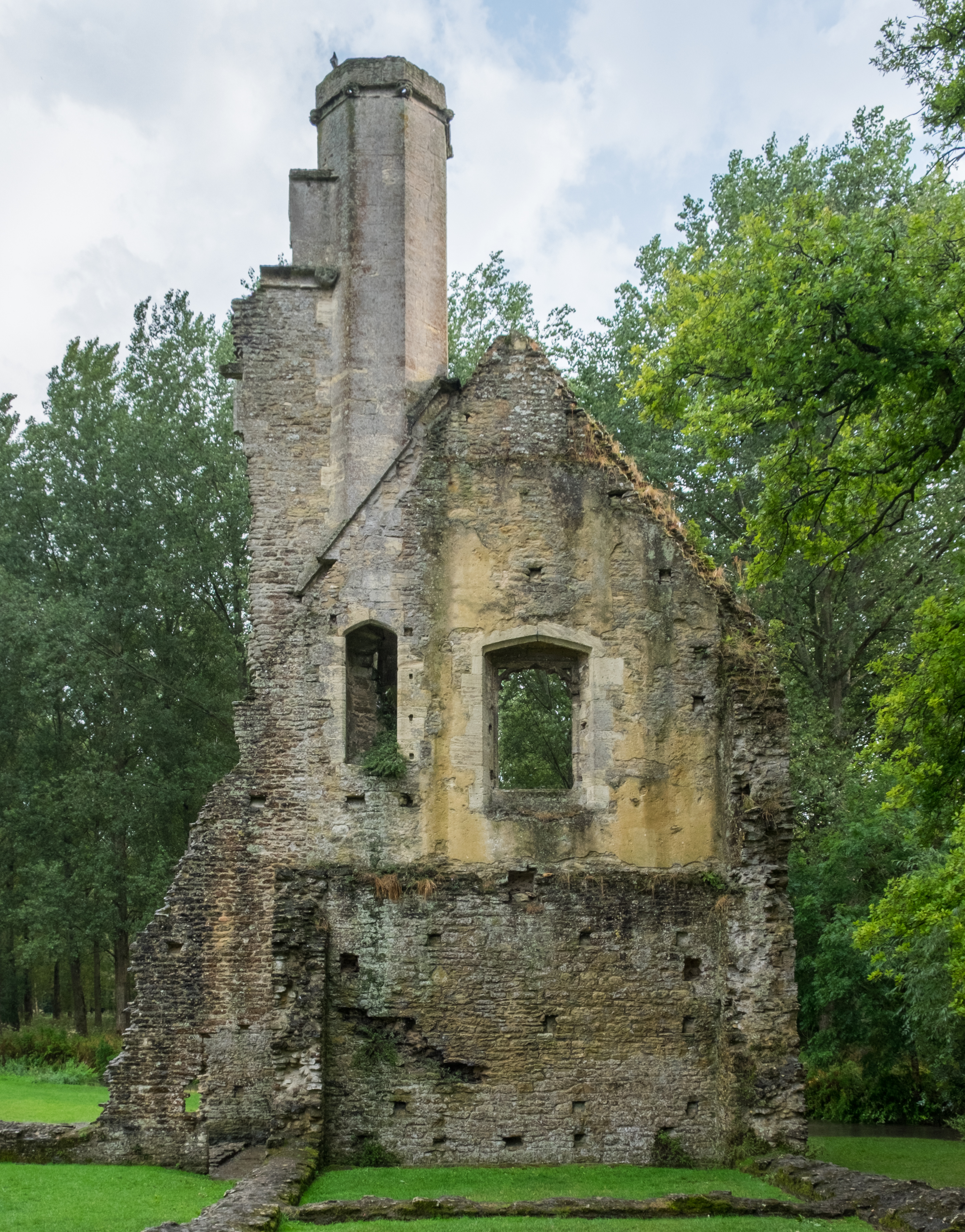 Minster Lovell Hall, 15th century south-east tower.